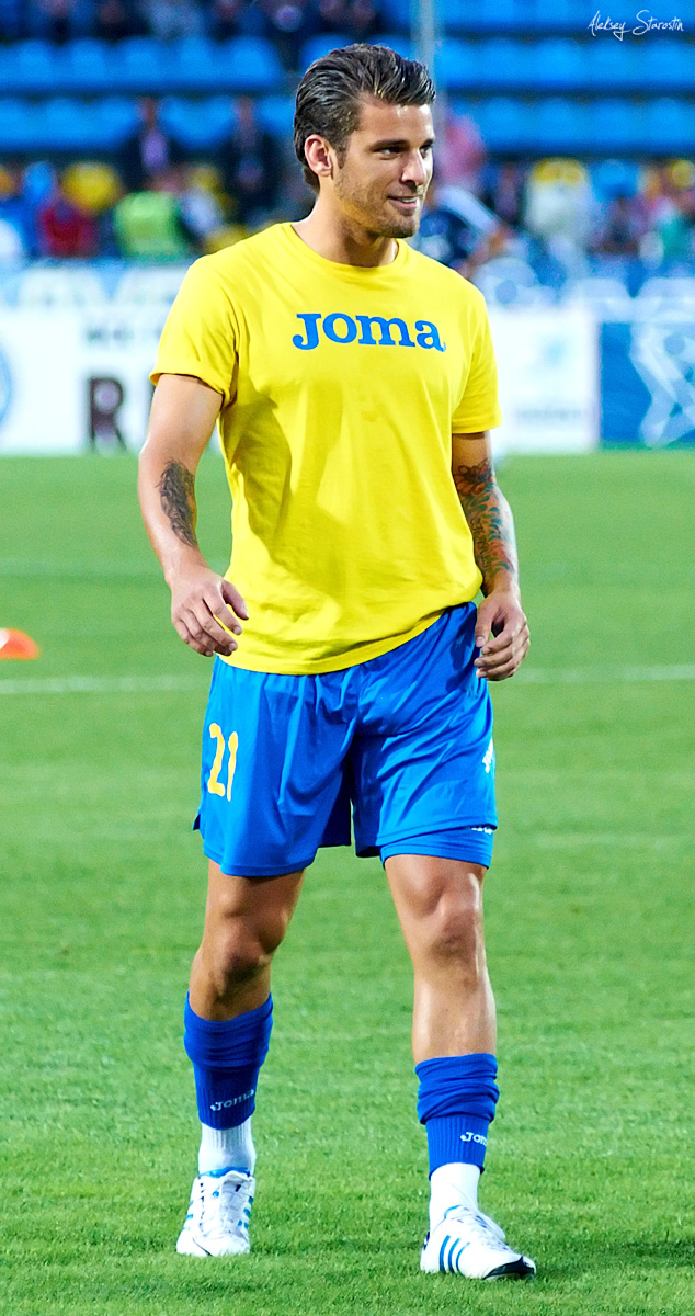 English footballer David Bentley (FC Rostov). September 16, 2012, in a match between the clubs Rostov and Dynamo Moscow, as part of the Russian Football Championship 2012/2013 season.